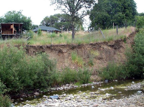 View of eroded portion of Robinson Creek in Boonville, California before the start of a stream restoration project (2003-2005).Robinson Creek Restoration Project. University of California, Davis. Project No. DWR P13-045